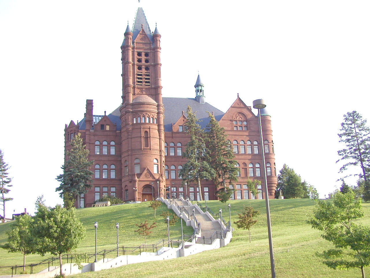 Syracuse University, June 2003